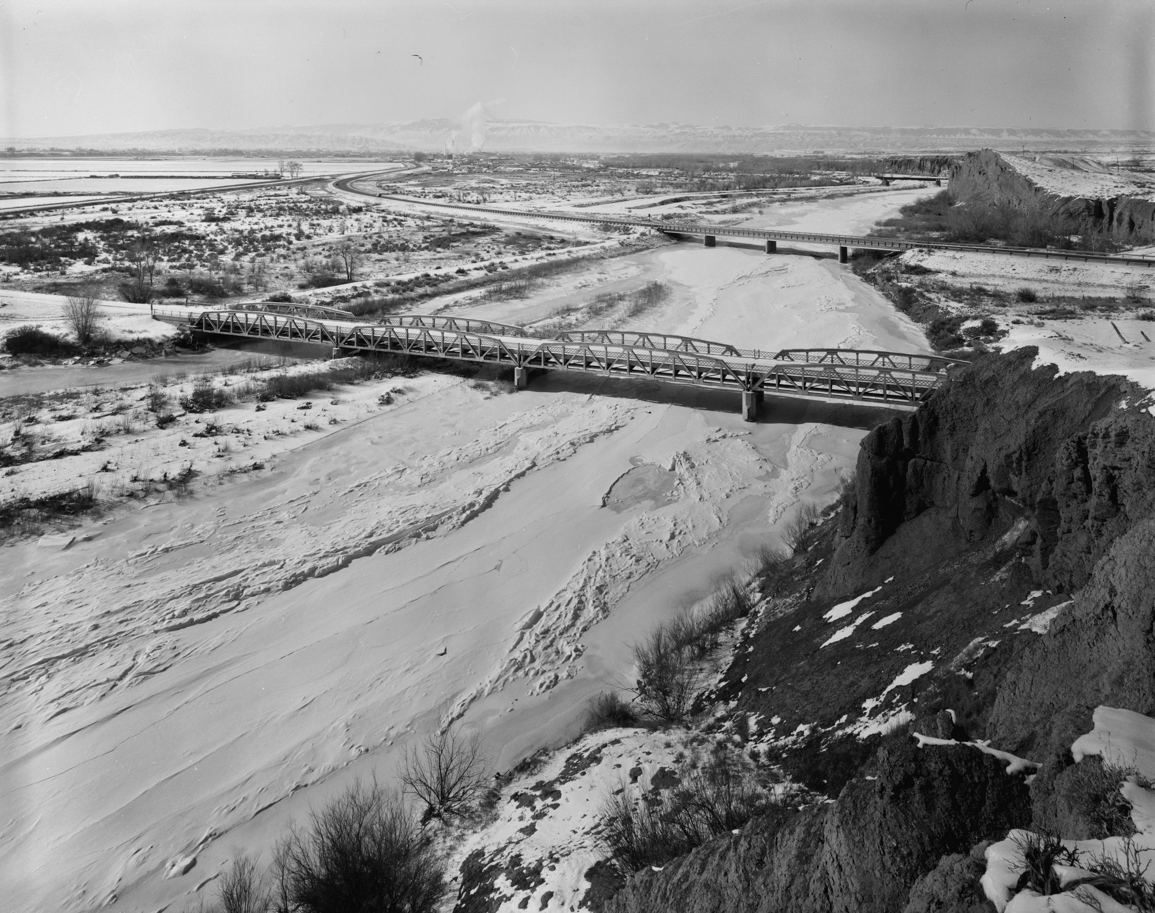 Western side of the EJZ Bridge over Shoshone River, which carries County Road CN9-111 over the Shoshone River near Lovell in Big Horn County, Wyoming, United States. Built in 1925, this Warren pony truss bridge is listed on the National Register of Historic Places.